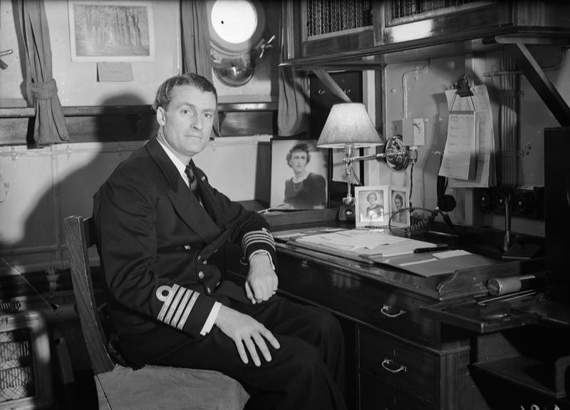 Captain (d) a K Scott-moncrief, Rn, at His Desk in His Cabin Aboard HMS Faulknor. 10 February 1943, at Scapa Flow.